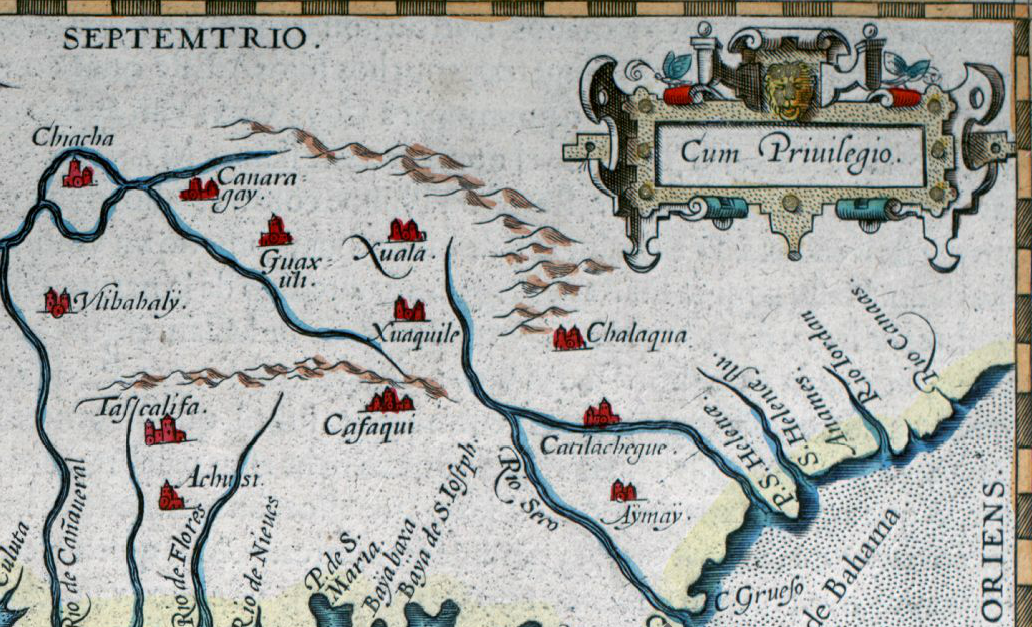 A portion of the 1584 map depicting the northern extent of law Florida, covering portions of modern-day North Carolina, South Carolina, Georgia, Florida, Tennessee, Alabama, Mississippi, Louisiana, Texas, and Arkansas.